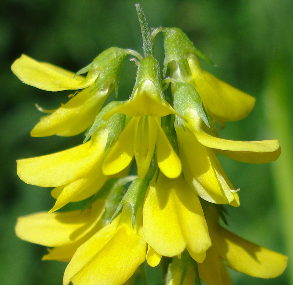 Melilotus altissimus (Unterfranken, Germany)